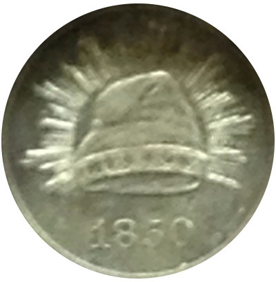 Pattern coin for the 3c piece in silver